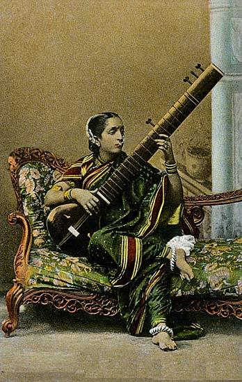 Painting of a woman with a sitar